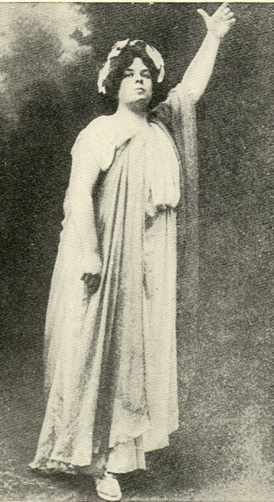 Opera singer Maria Gay